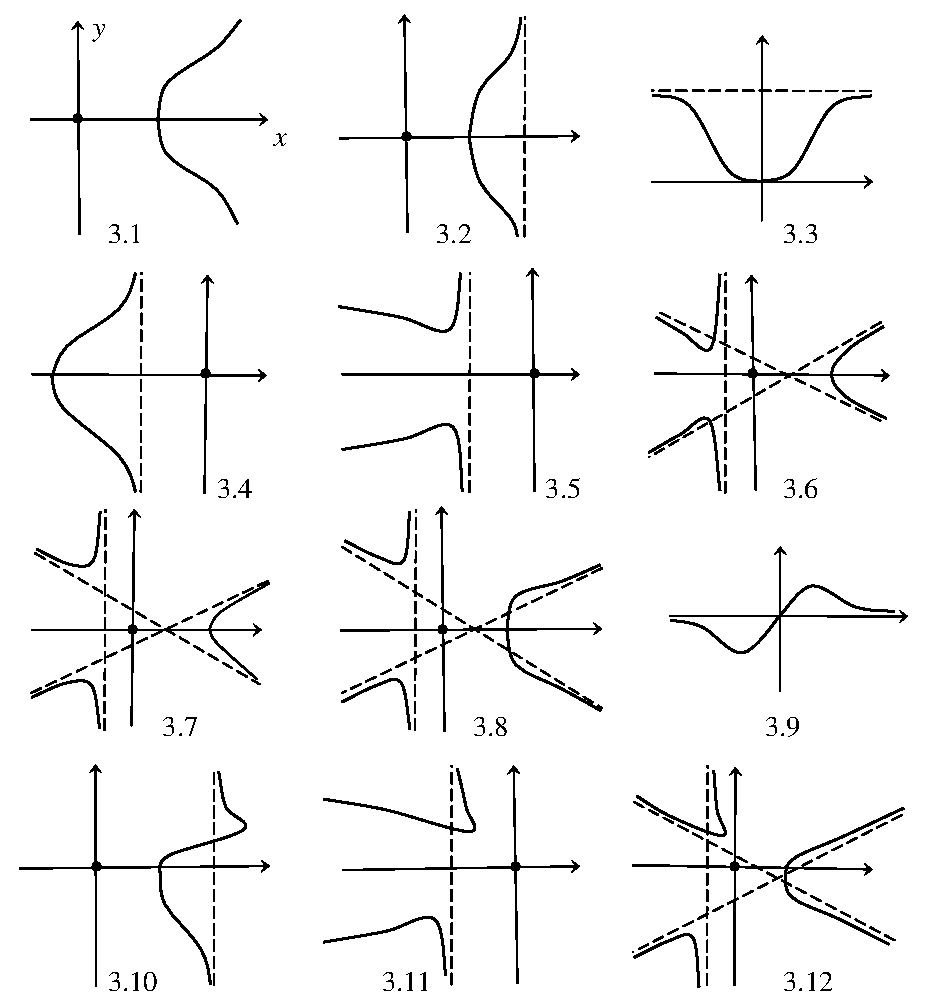 Classes from cubic isopoint